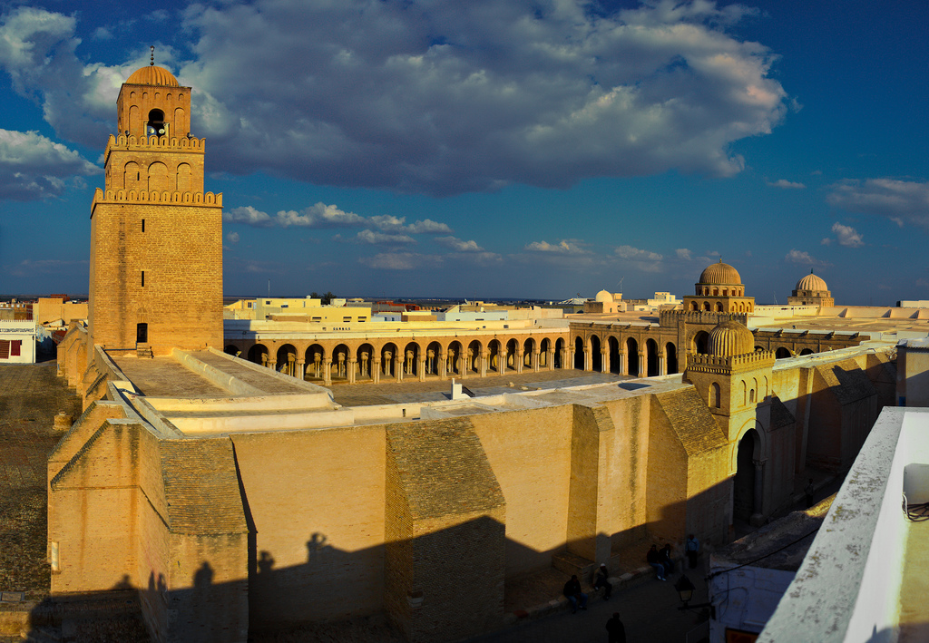 Stitched Panorama of the Great Mosque of Kairouan, in Tunisia. This mosque, also called the Mosque of Uqba, extends over a surface area of 9,000 square metres. Founded in 670 AD by the Arab general and conqueror Uqba ibn Nafi, it dates, in its present form, from the 9th century (definitively rebuilt in 836 AD under the Aghlabid dynasty). Besides the fact of being the oldest place of worship in the Muslim West, the Great Mosque of Kairouan represents a remarkable example of Islamic architecture.